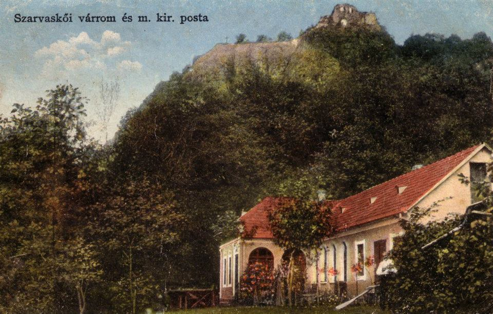 Szarvaskő Castle Hill around 1910